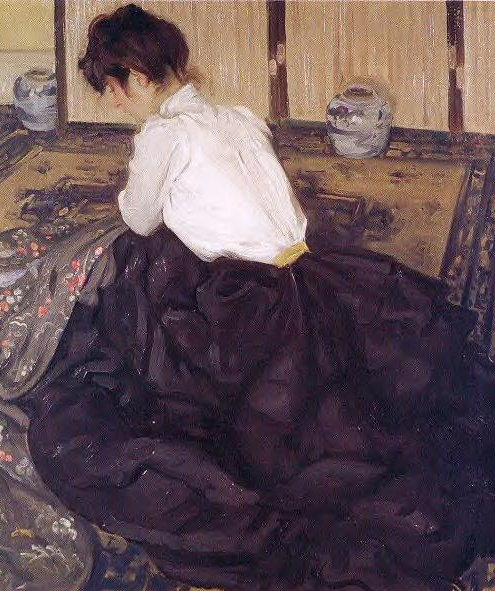 I took this picture myself at an exhibition (American Realism and Impressionism, Metropolitan Museum of Art, some years ago) and hereby release it into the public domain.